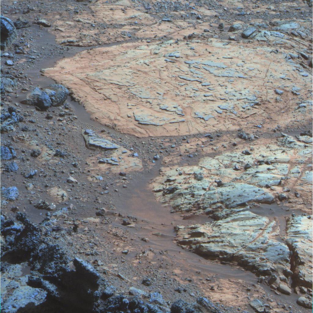 11.12.2012 'Whitewater Lake' Rock Viewed by Opportunity A rind that appears bluish in this false-color view covers portions of the surface of a rock called "Whitewater Lake" in the top half of the view from NASA's Mars Exploration Rover Opportunity. This rind is similar in appearance to weathering rinds previously seen by Opportunity on rocks elsewhere within the Meridiani Planum region where the rover has worked since landing in 2004. Whitewater Lake is in the "Matijevic Hill" portion of the "Cape York" segment of the rim of Endeavour Crater. The three exposures through different filters that were composited into this image were taken by Opportunity's panoramic camera (Pancam) during the mission's 3,064th Martian day, or sol (Sept. 6, 2012). The view is presented in false color that enhances color differences among various geological materials in the scene. Whitewater Lake is the large flat rock in the top half of the image. From left to right it is about 30 inches (0.8 meter) across. The dark blue nubby rock to the lower left is "Kirkwood," which bears non-hematite spherules shown in a close-up image at . The rocks to the lower right look like breccias -- a type of rock containing jumbled fragments cemented together. They resemble other rocks in the area classed as the Shoemaker formation, which is hypothesized to hold deposits of material ejected when an impact excavated Endeavour Crater billions of years ago. Image Credit: NASA/JPL-Caltech/ Cornell Univ./Arizona State Univ.